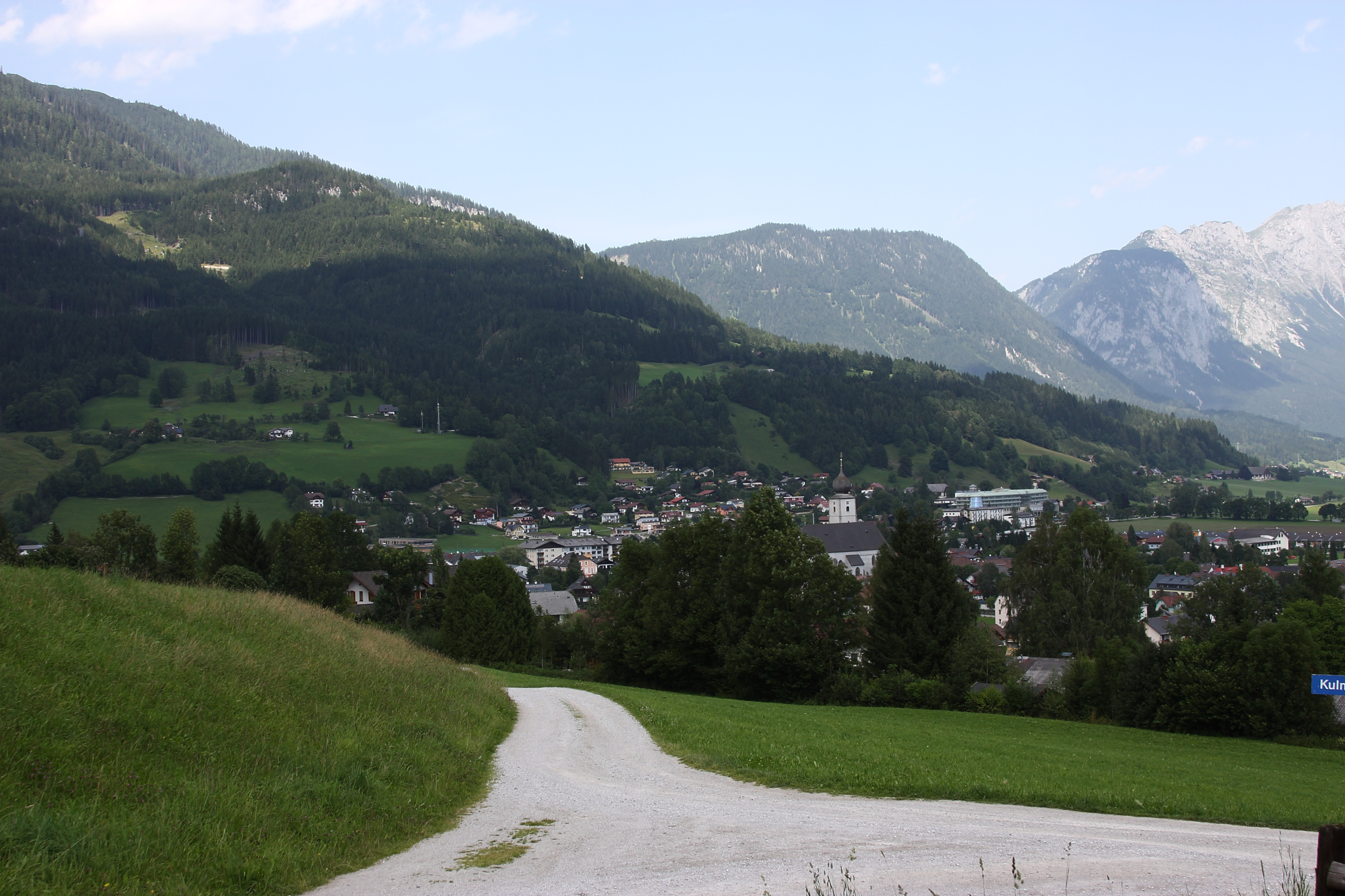 Gröbming, Styria, Austria